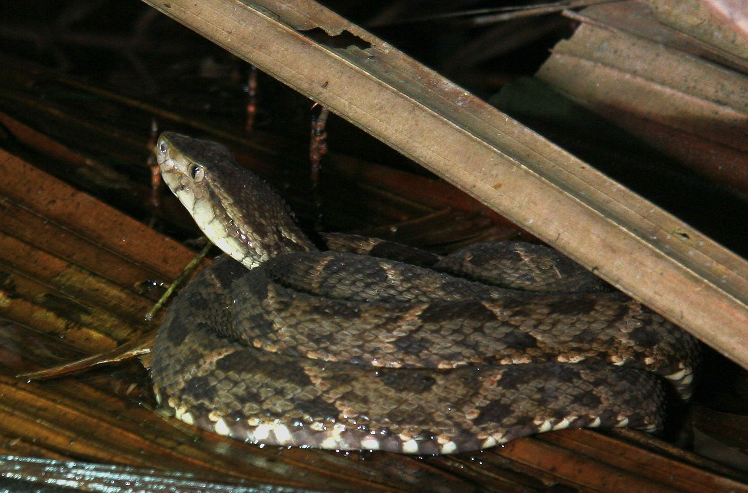 Bothrops asper in Tortuguero, Limon, Costa Rica.Unknown